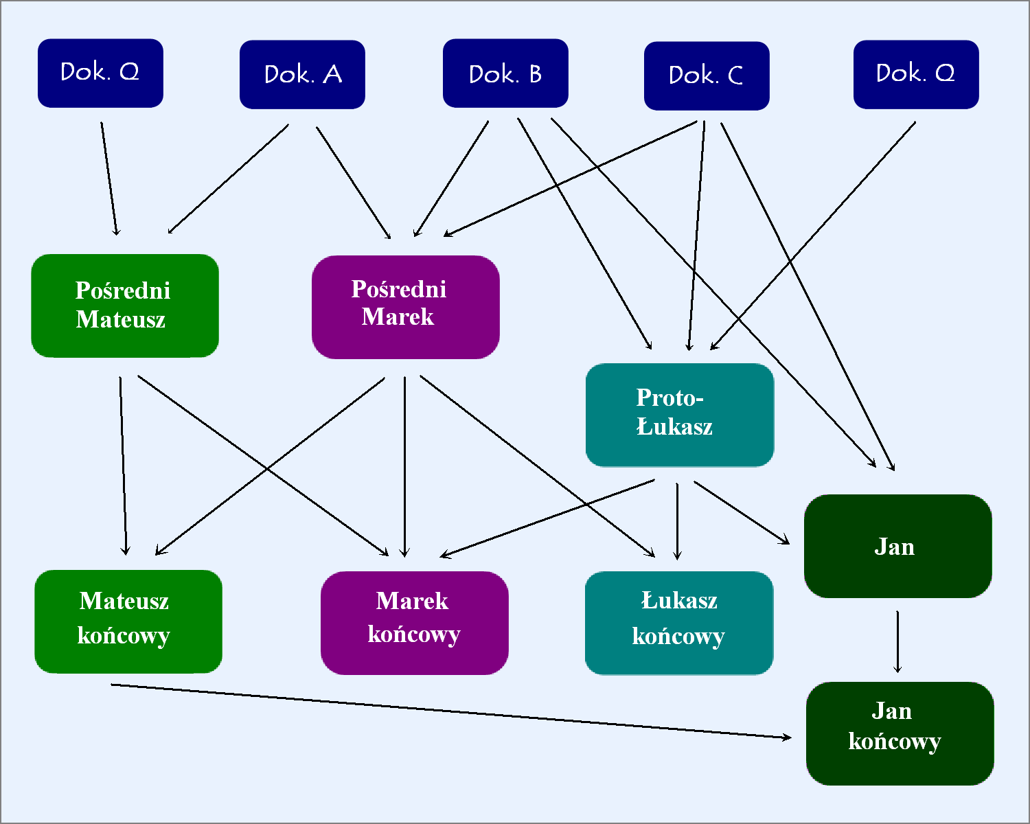 Graphic performance the hypothesis of Boismard to the article Synoptic Problem